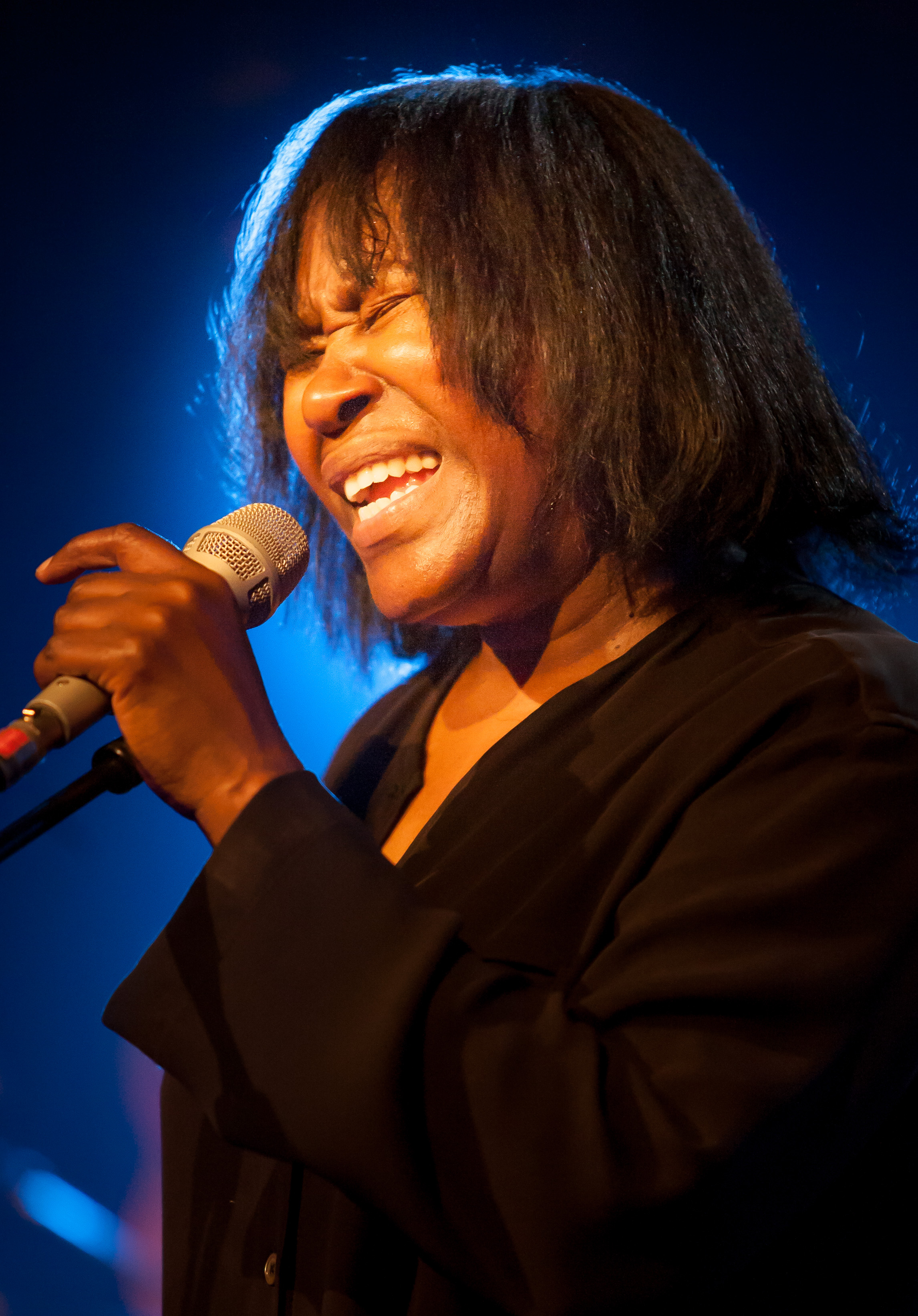 Joan Armatrading at music club “Die Kantine”, Cologne